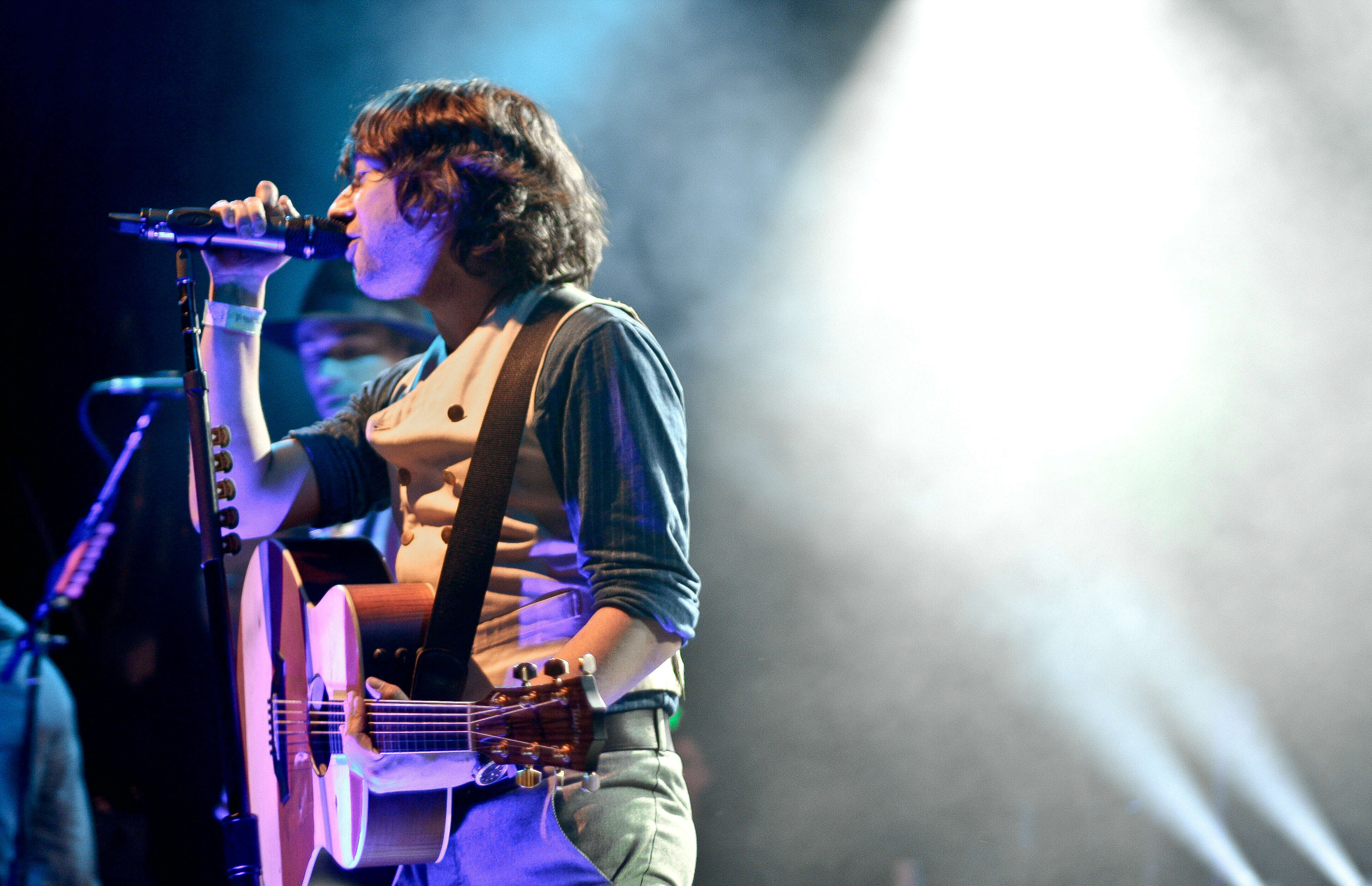 Wonders of the Younger Tour 10/7/11